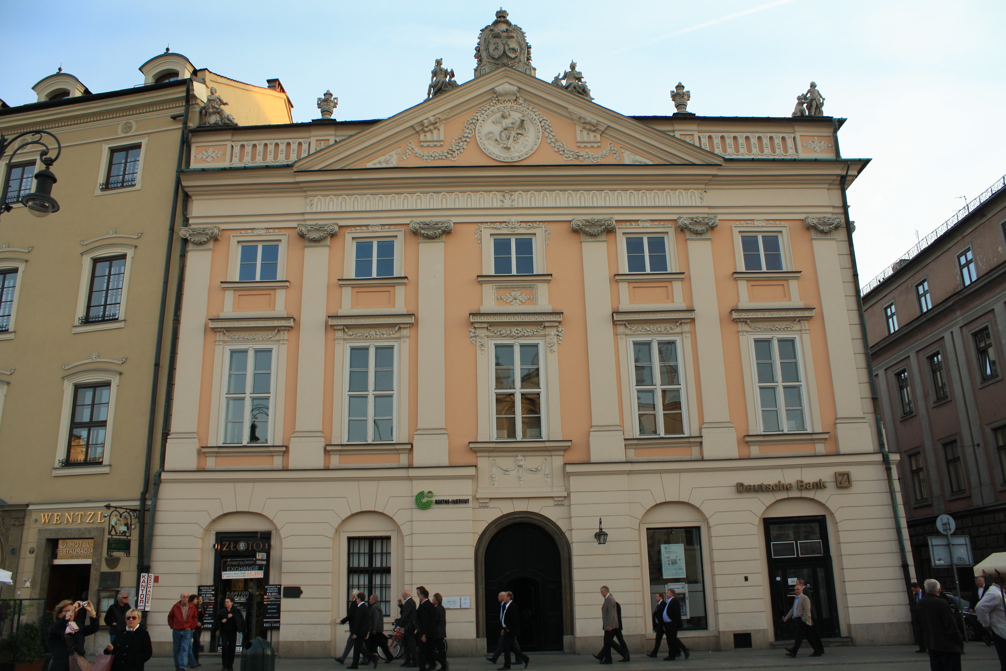 Potocki Palace at Old Town Market in Kraków